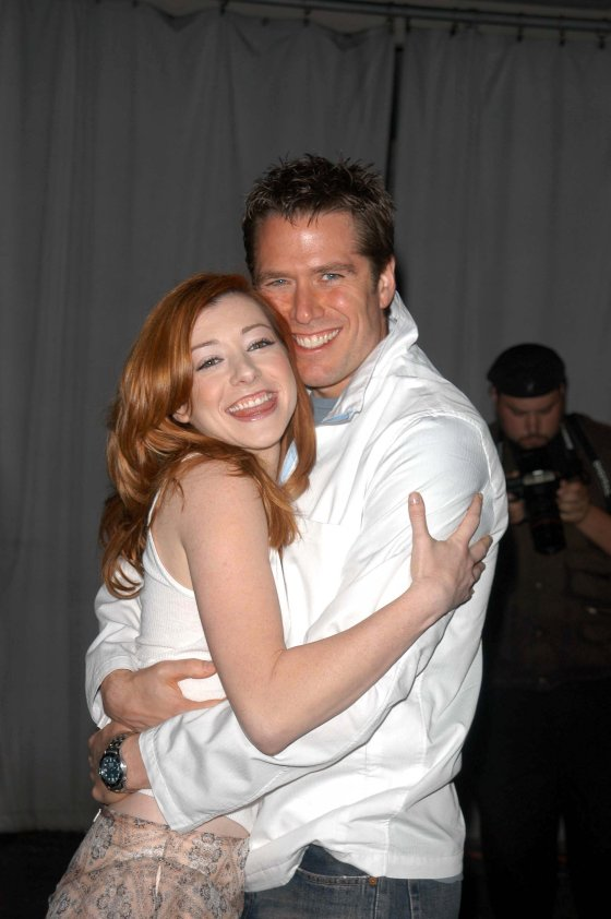 Actor Alexis Denisof and actress Alyson Hannigan at Buffy the Vampire Slayer wrap party.